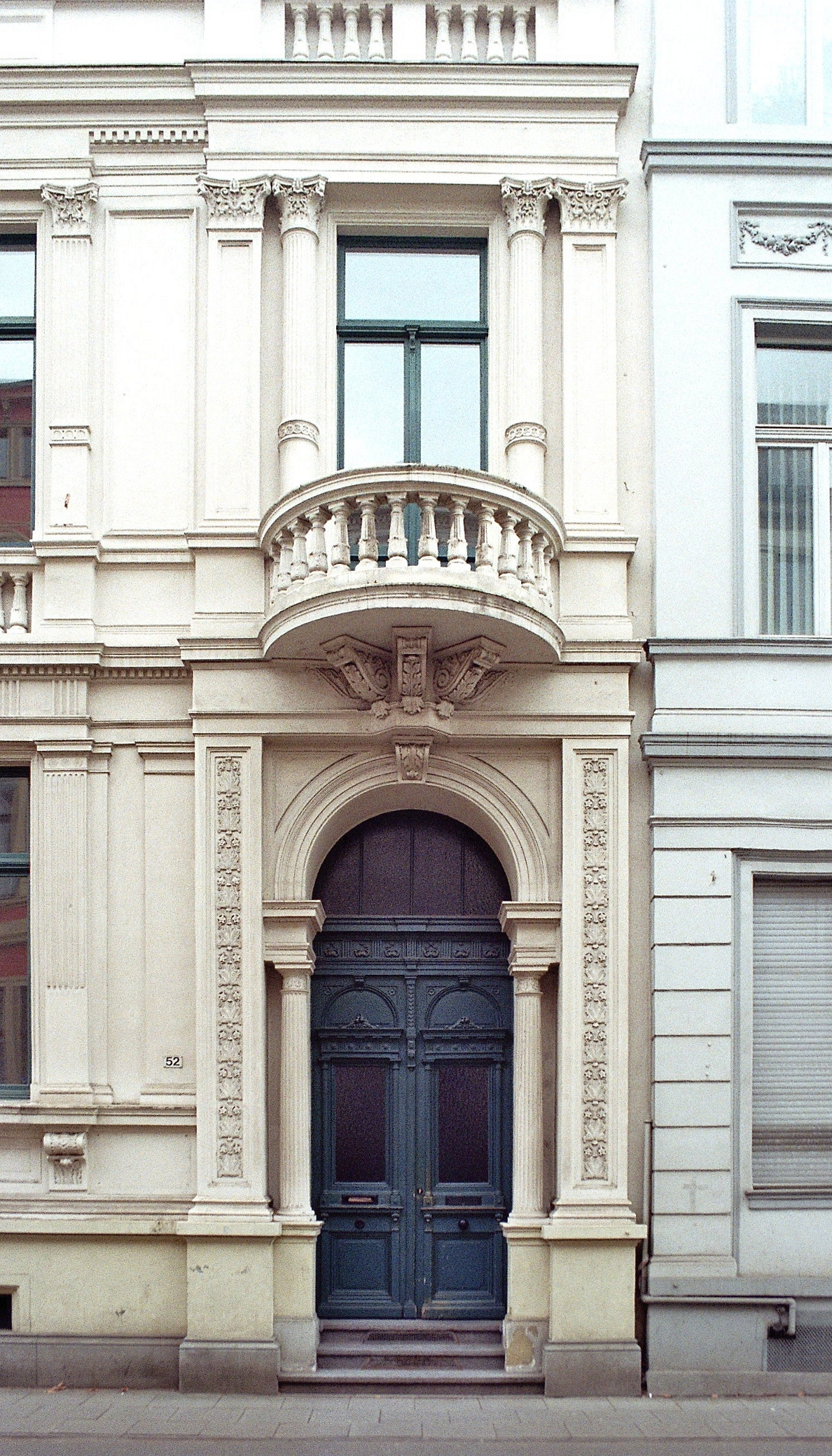 Door front of the former house of student fraternity Corps Borussia Bonn in Bonn/Germany, Kaiserstrasse 52